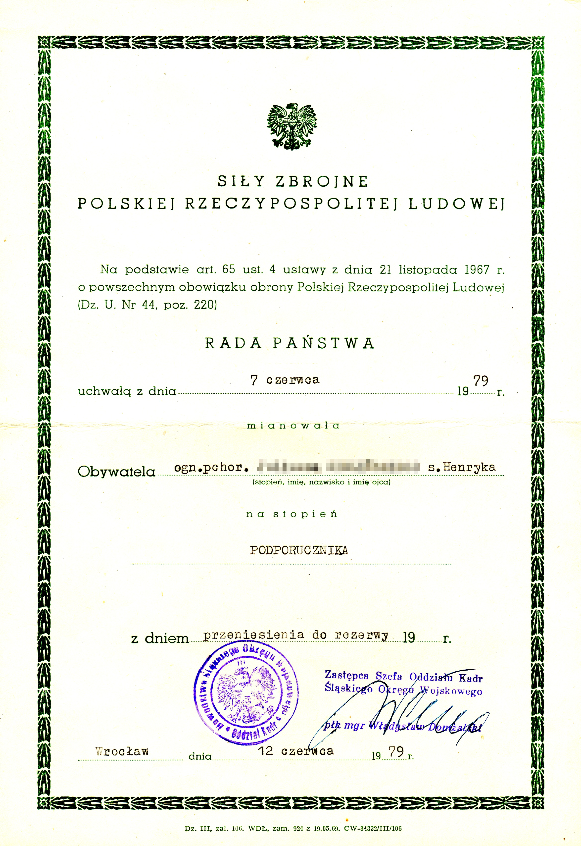 Lieutenant nomination certificate of Polish Army, 1979